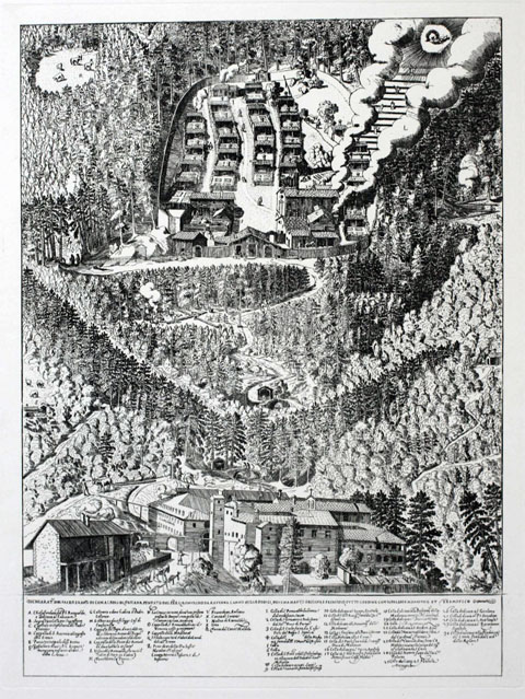 View of the Camaldolese Monastery near Arezzo, Italy. Printed 16th century.